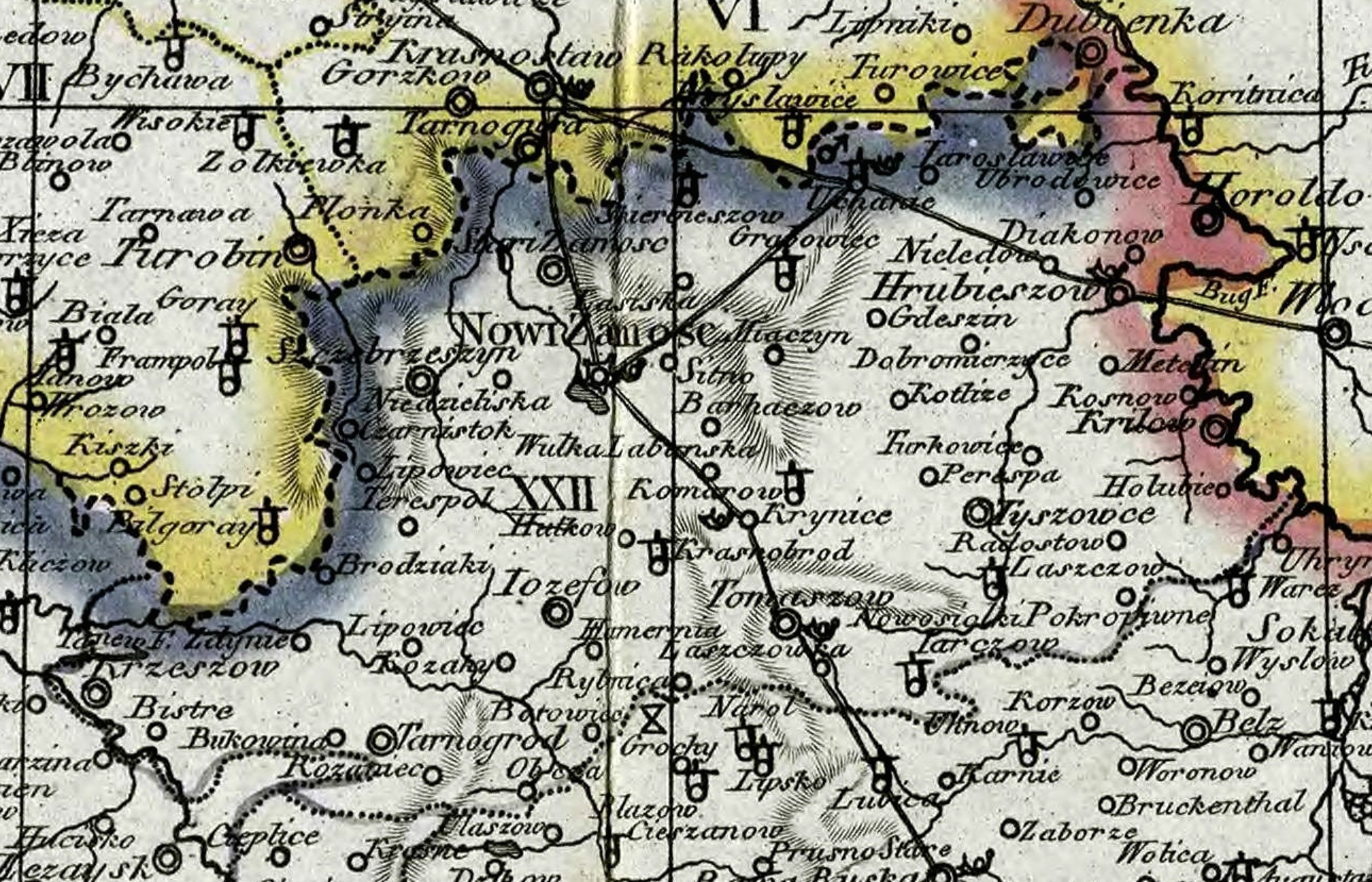 Zamość County of East Galicia in 1805